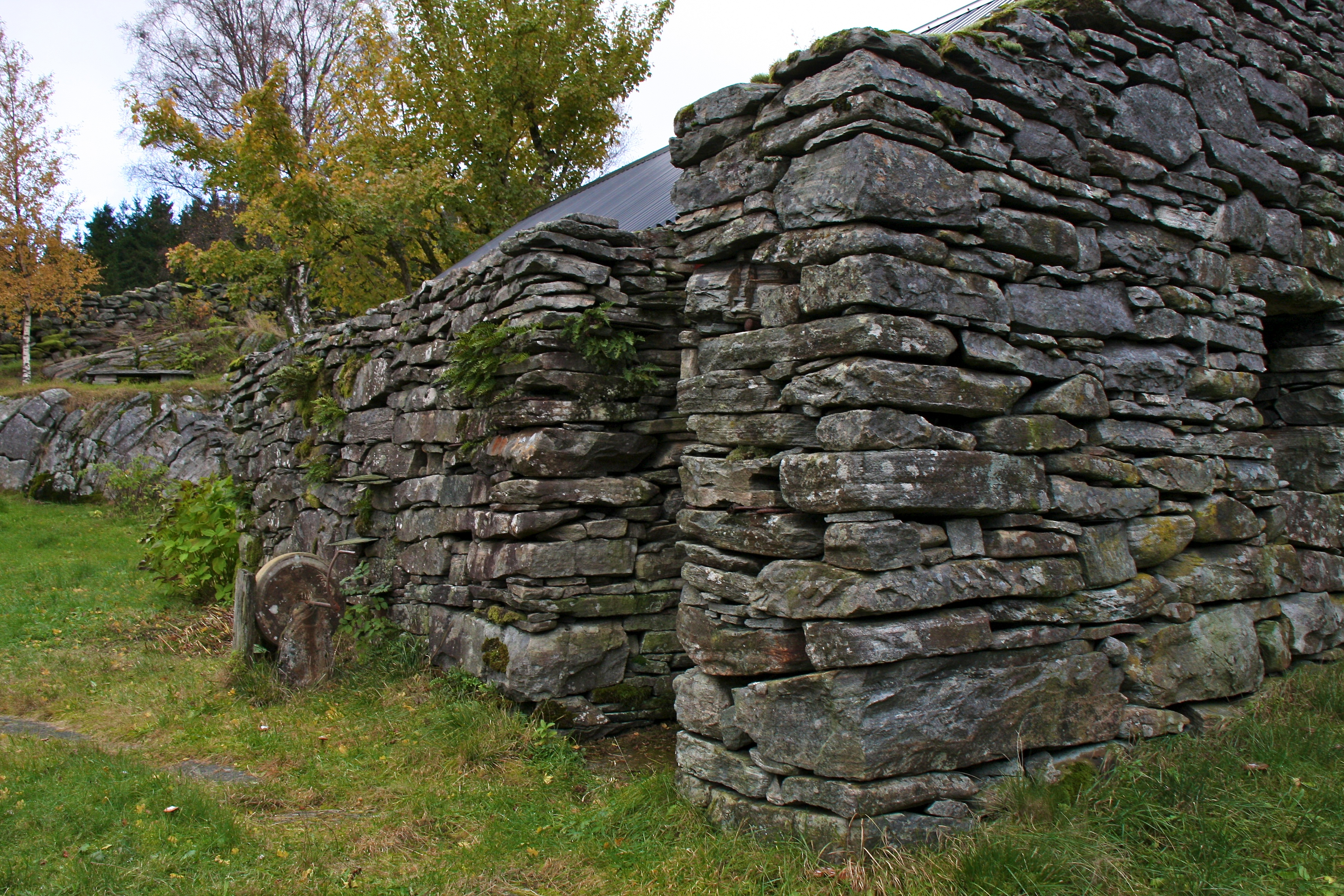 Gulen municipality, Norway.